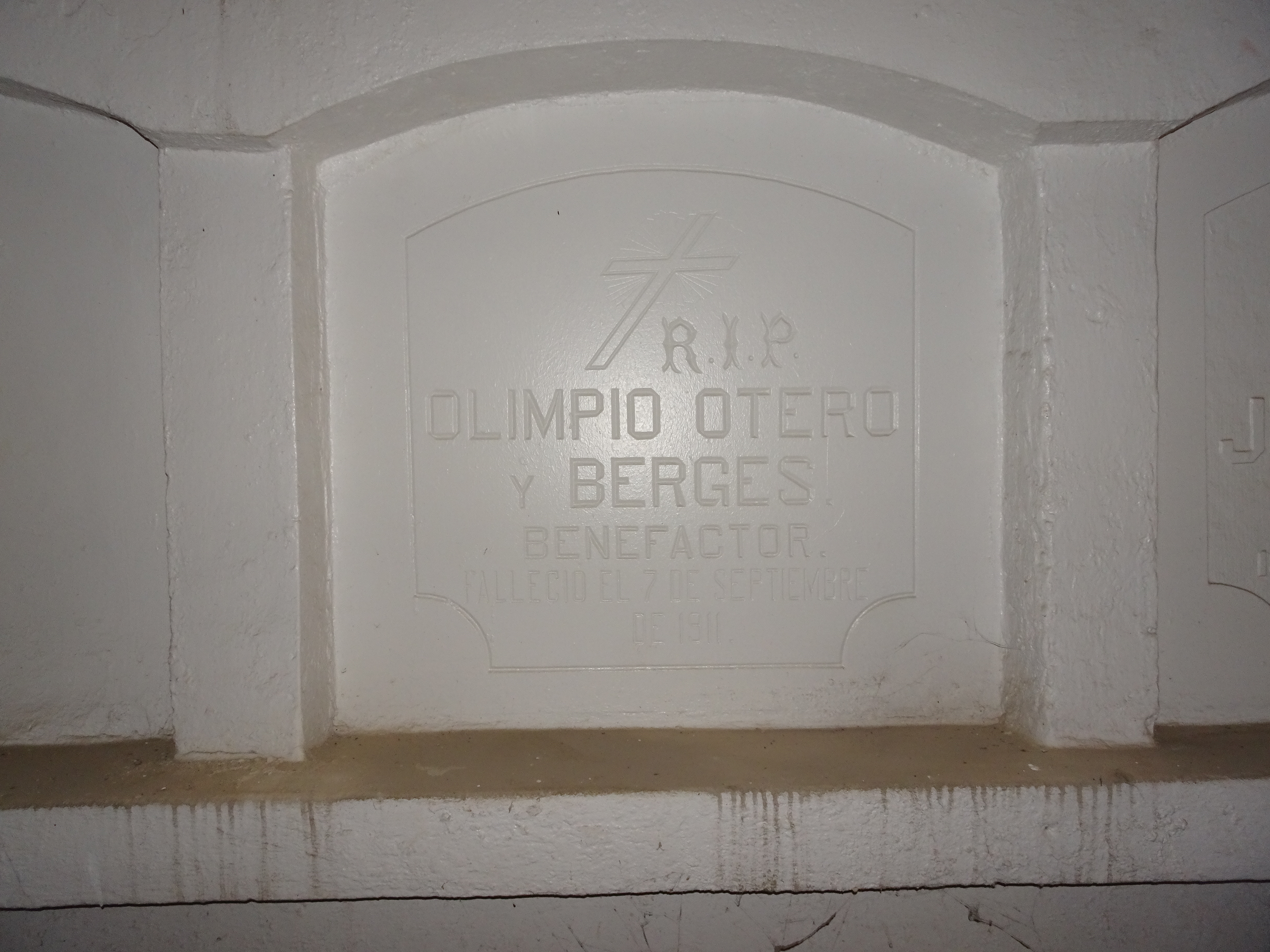 Niche de Olimpio Otero Berges, Mausoleo de los héroes de El Polvorín, Cementerio Civil de Ponce, Bo. Portugués Urbano, Ponce, PR (DSC02815)